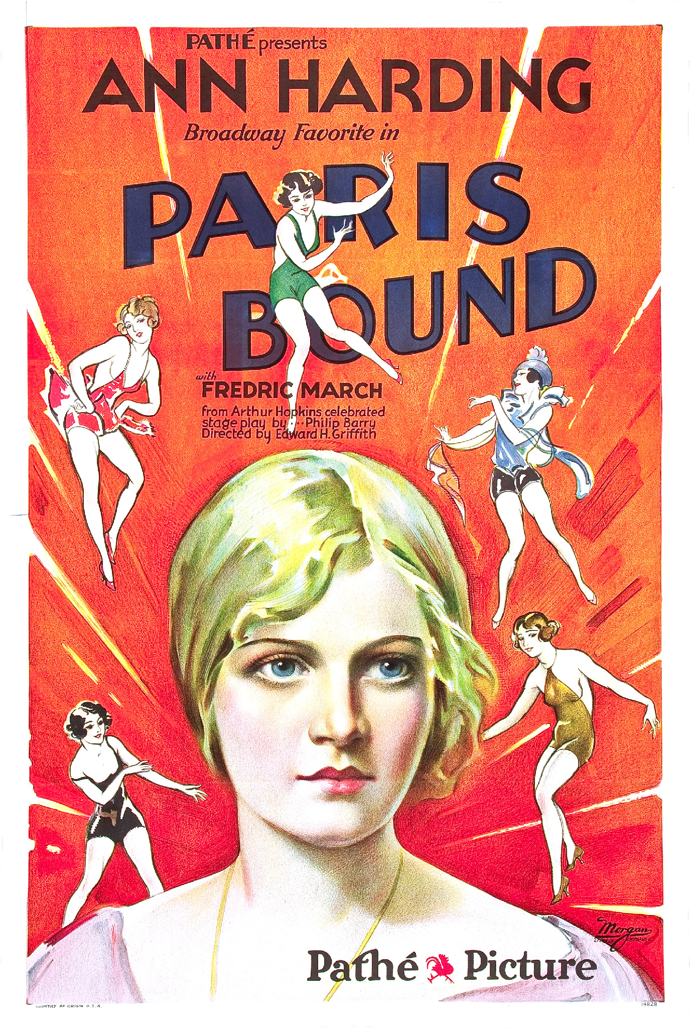 Poster for the 1929 film Paris Bound. There are no copyright marks on the poster. At lower left is Country of origin USA. At lower right is the logo of the Morgan Litho Co., Cleveland--they printed the poster--and 19128-likely a print job number for the poster.